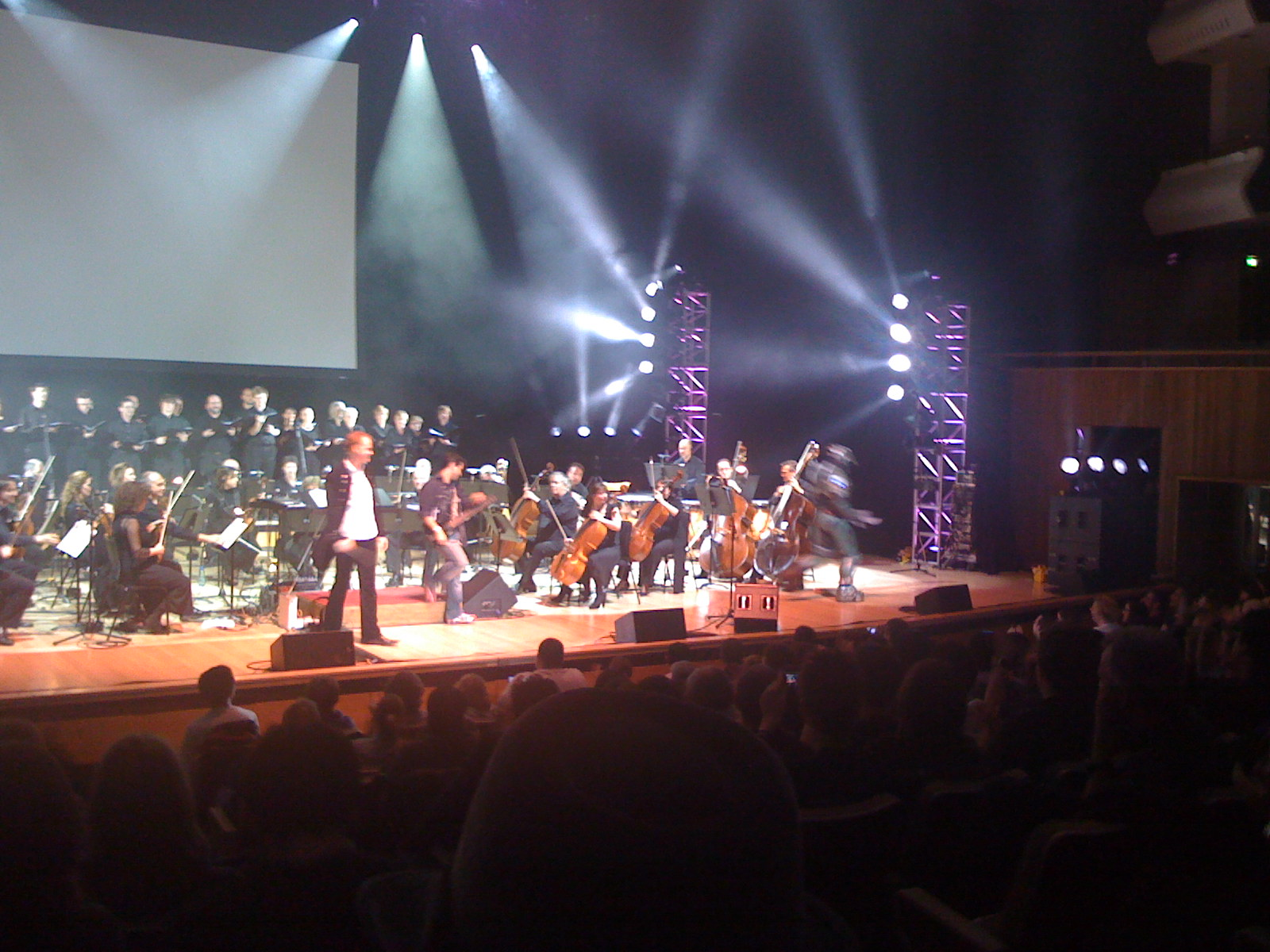 Video Games Live concert in 2008 with the London Chamber Orchestra at the Royal Festival Hall